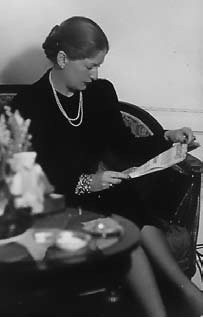 Edit von Coler, 1938